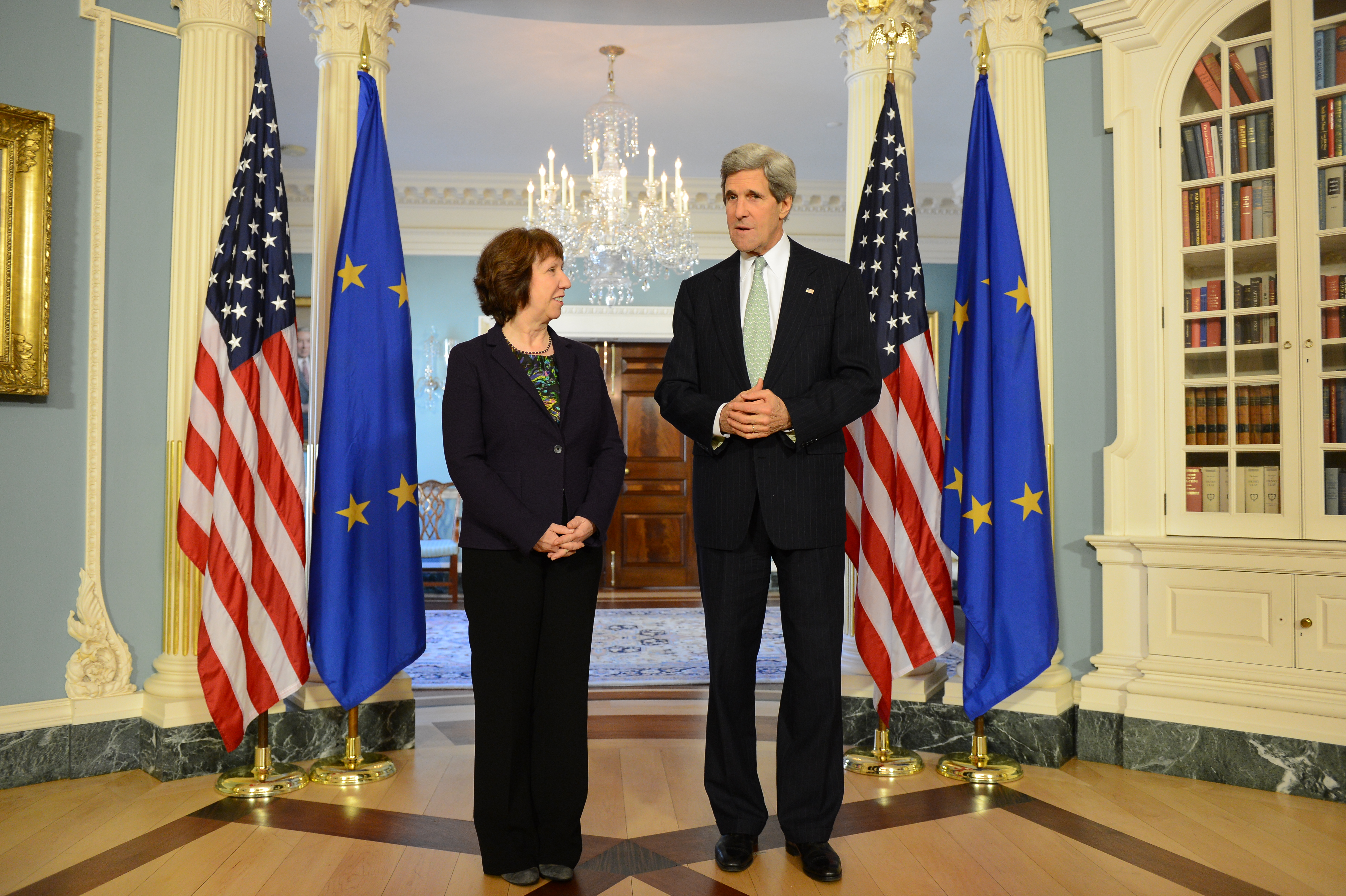 U.S. Secretary of State John Kerry meets with European Union High Representative Catherine Ashton at the U.S. Department of State in Washington, D.C., February 14, 2013. [State Department photo/ Public Domain]